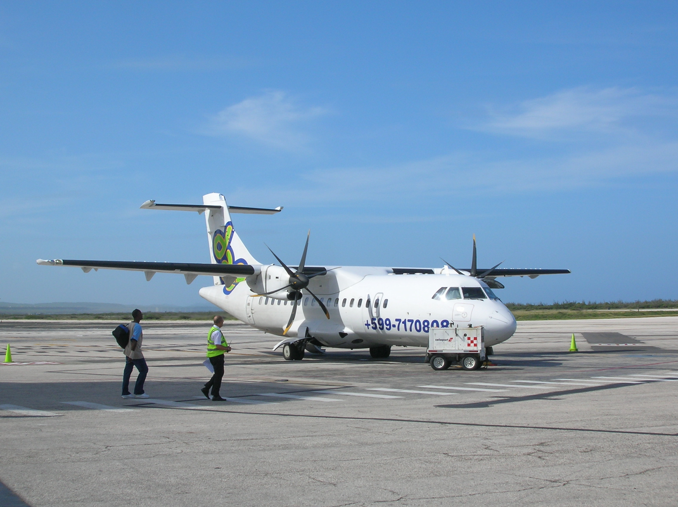 DAE ATR42-500 parked at Curaçao